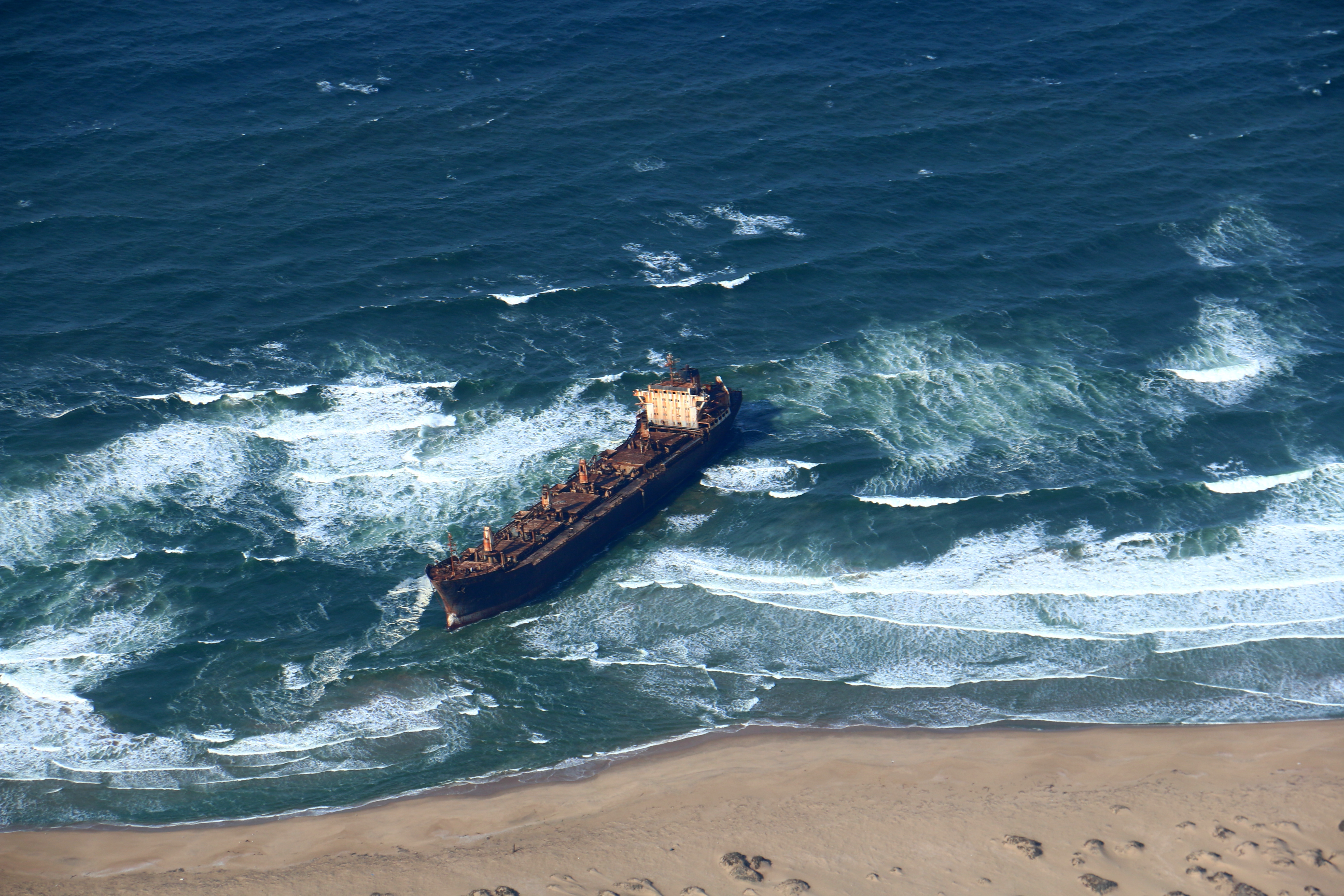 Ship Wreck of Frotamerica 33 km NNE of Lüderitz / Namibia